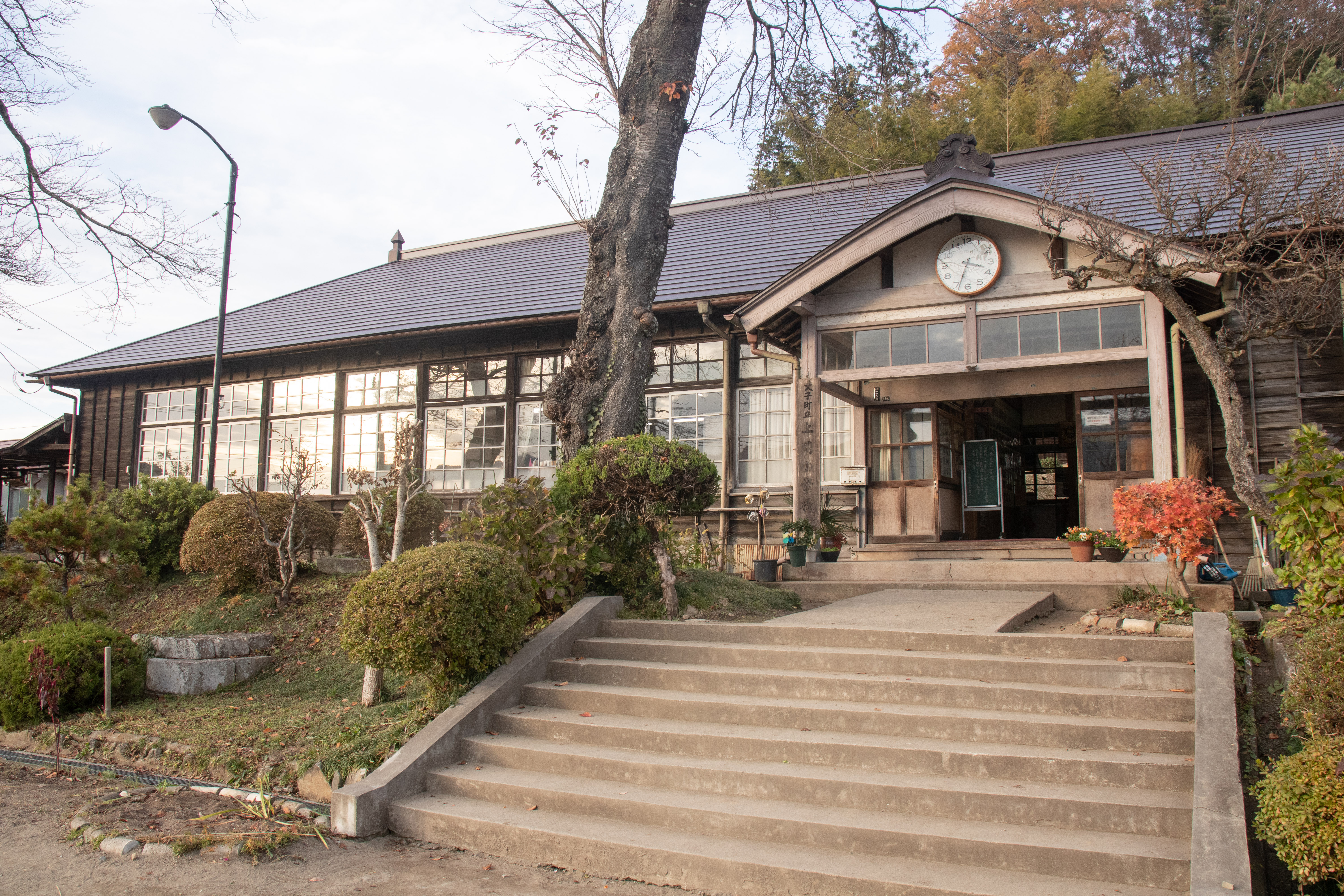 Uwaoka elementary school, Daigo Town, Ibaraki, Japan